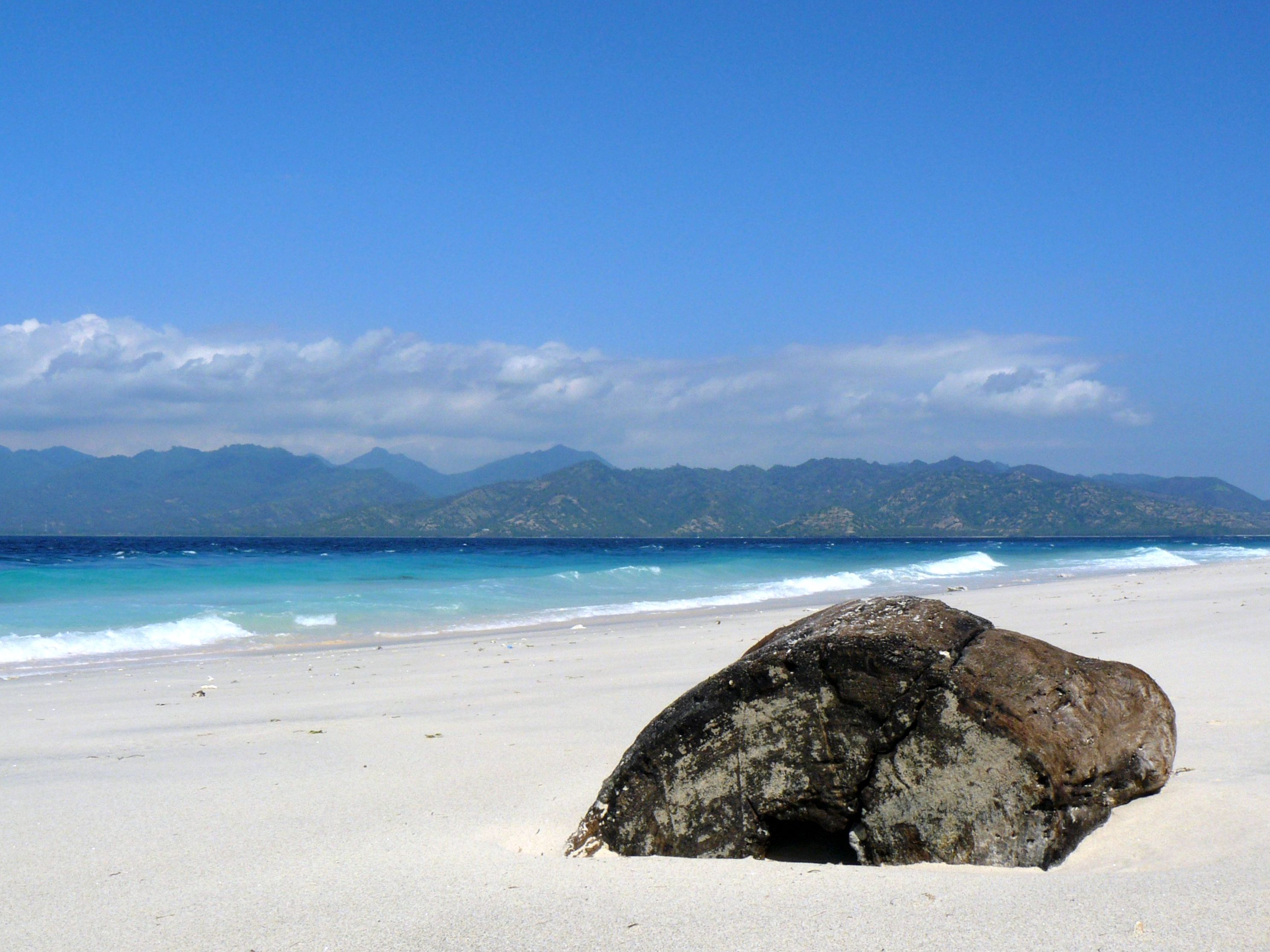 Gili Meno, Indonesia, Gili Meno's southeast coast, looking back towards Lombok Location: Lombok